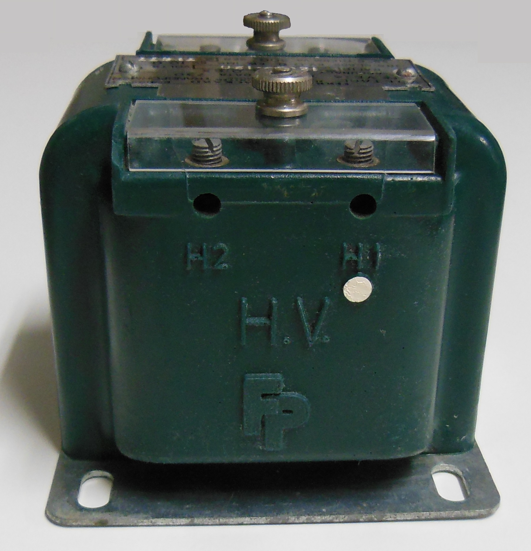 Instrument transformer showing both dot convention, and alphanumeric convention, of marking instantaneous polarity on HV winding side